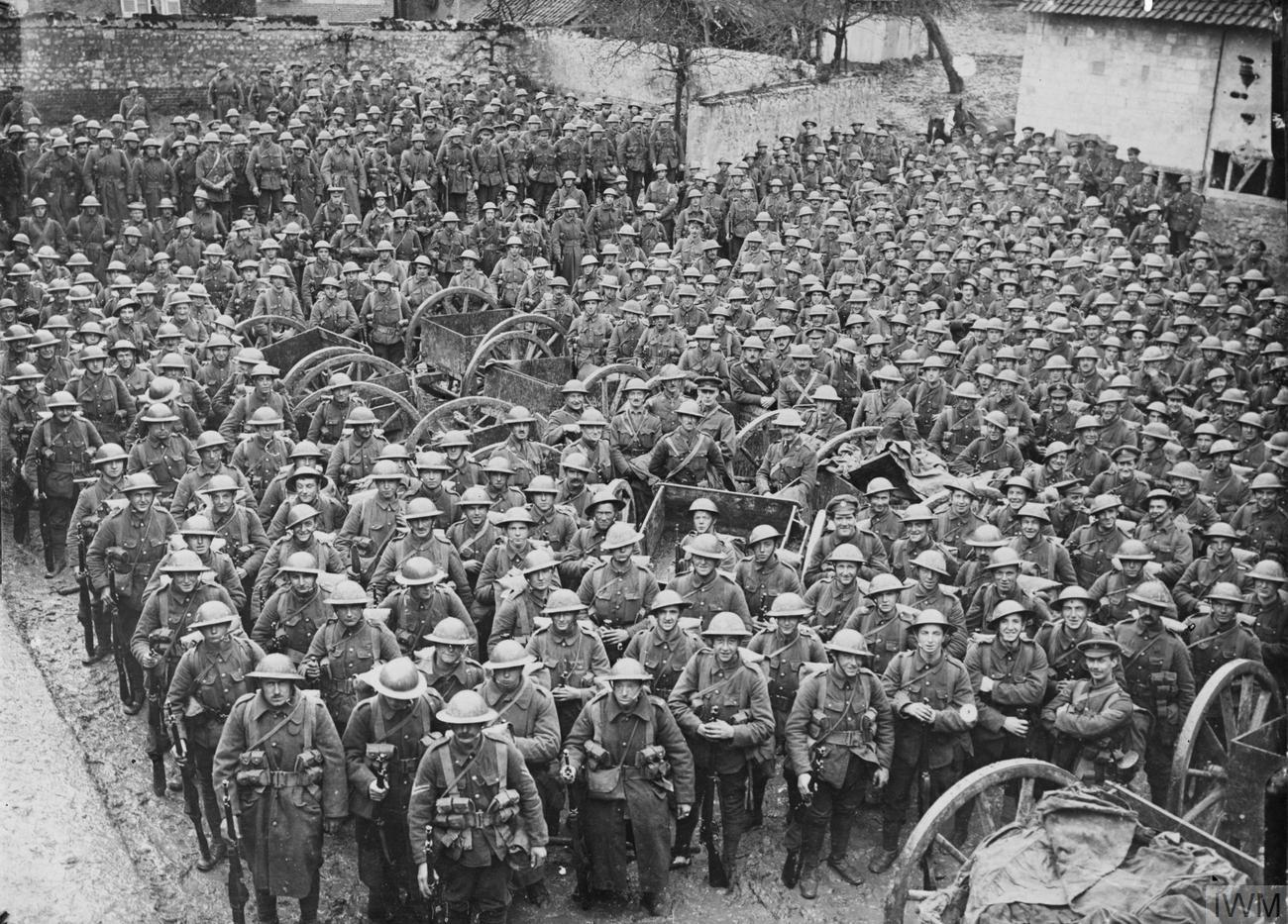 British Army on the Western Front, 1914-1918. The Royal North Lancashire Regiment, 55th Division, parading for the trenches at Wailly, 17th April 1916.